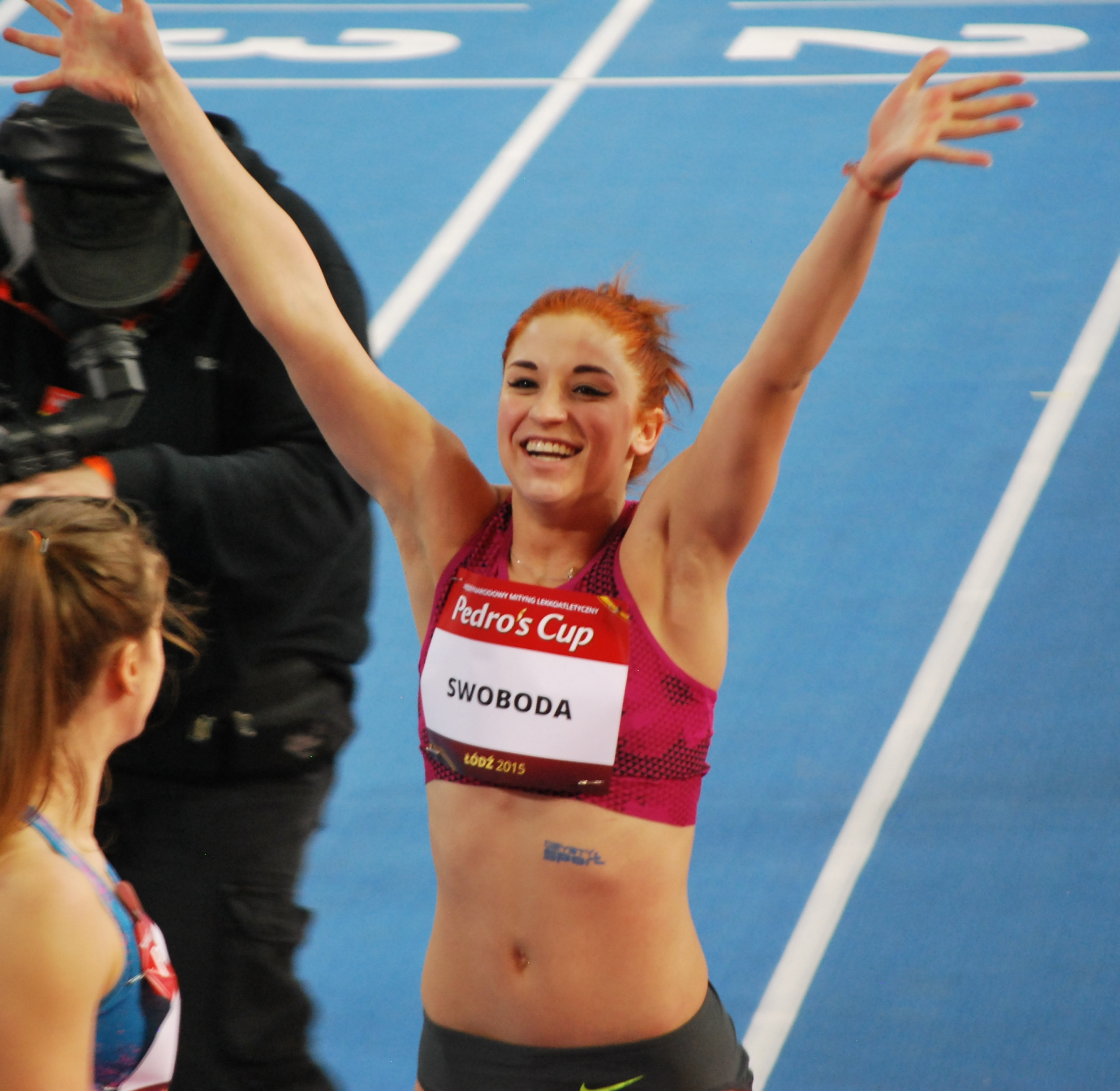 Pedros Cup 2015 Łódź, Ewa Swoboda, sprinter from Poland